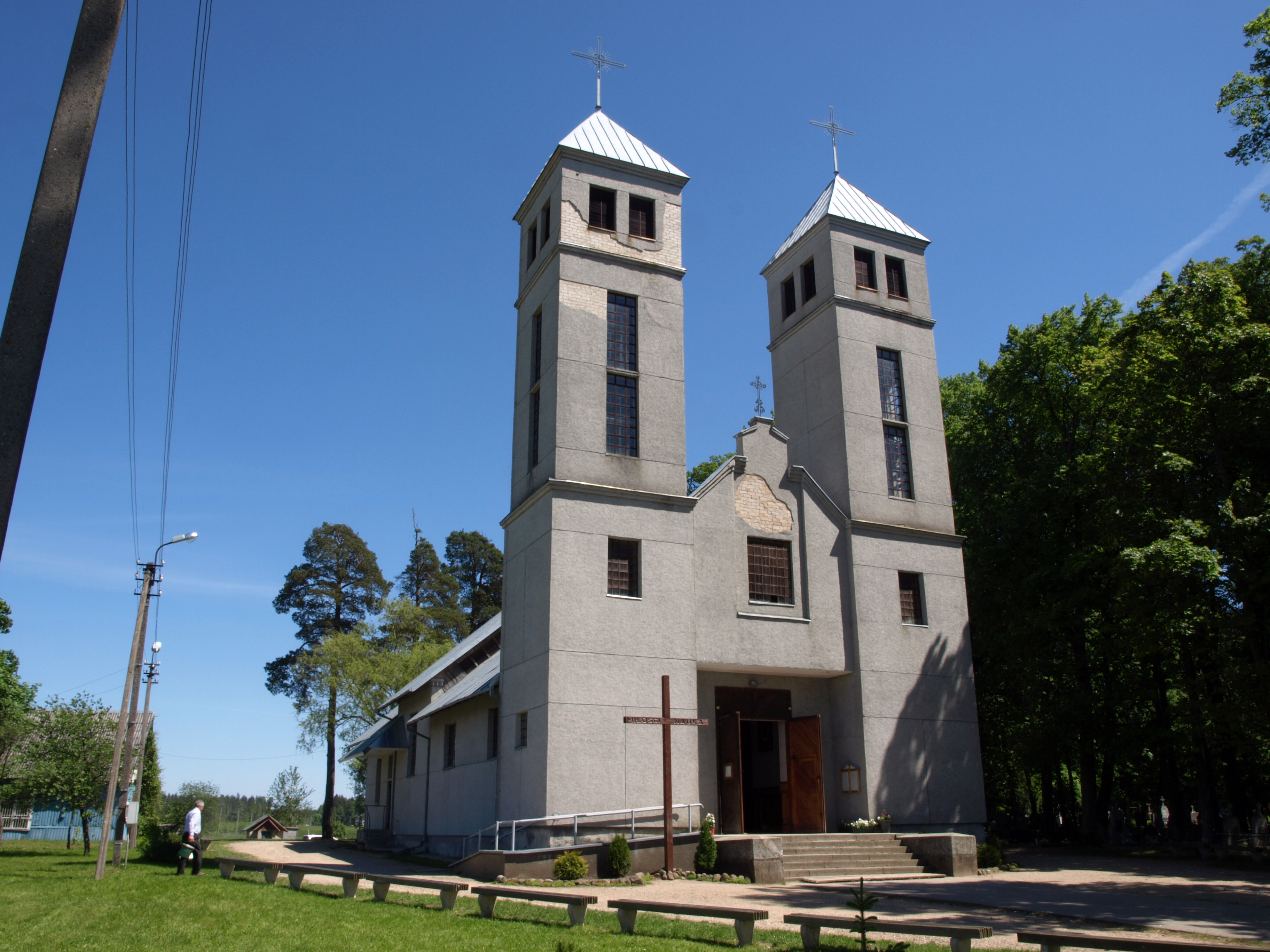 Šalčininkai church, Šalčininkai district, Lithuania